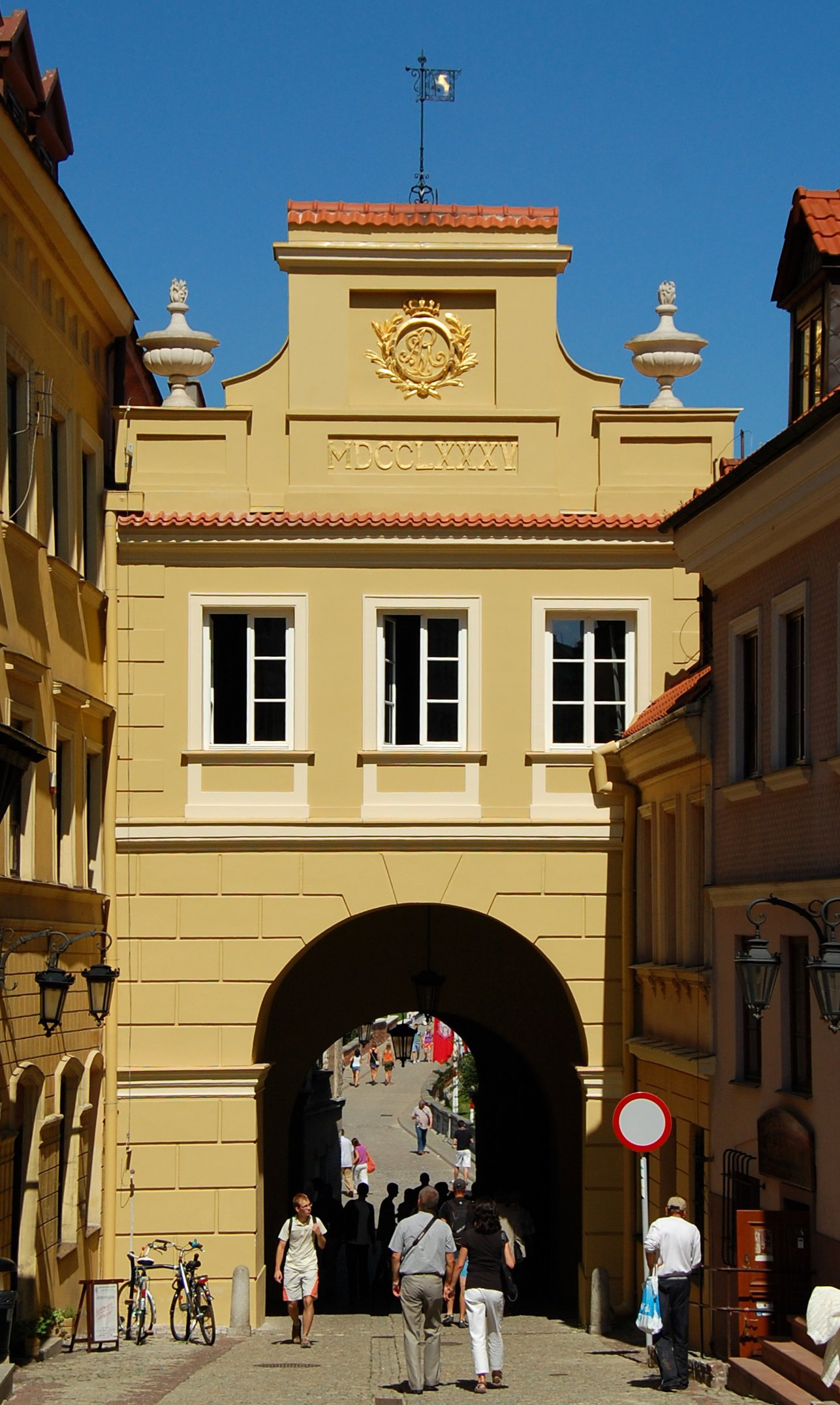 Grodzka Gate, Lublin, Poland.